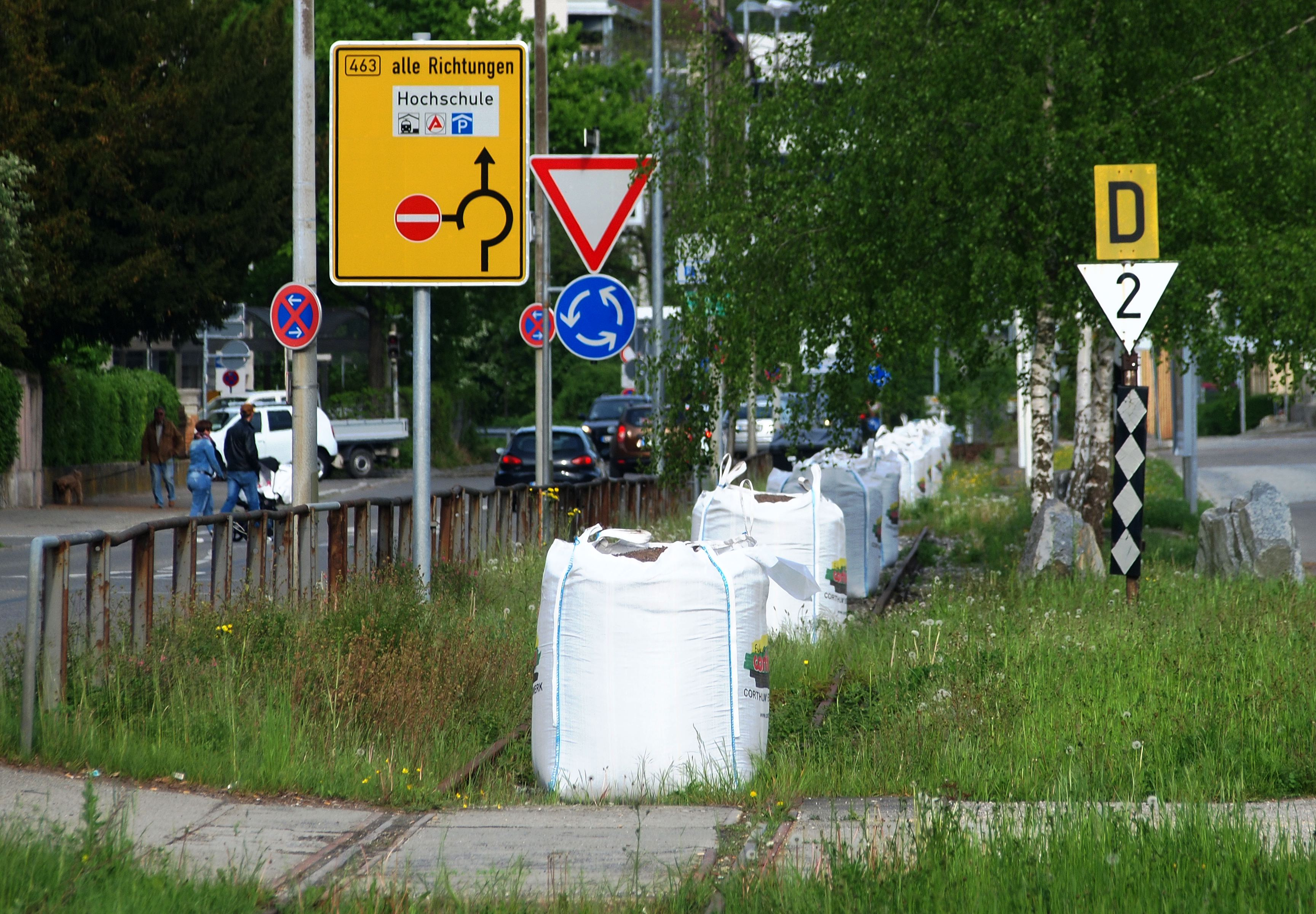 Soil bags on an abandoned rail track